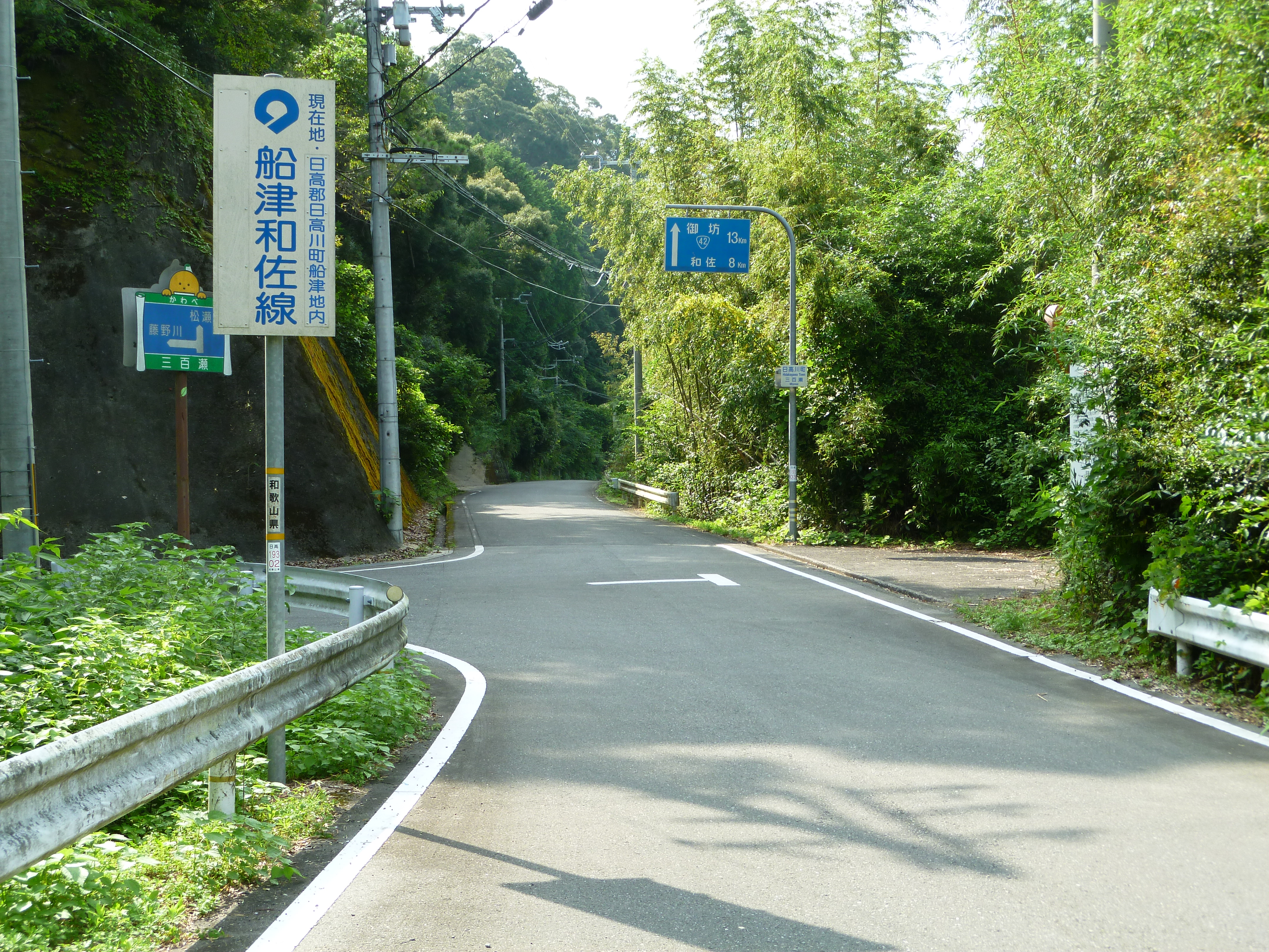 The Wakayama Prefectural Road Route 193 in Hidakagawa Town